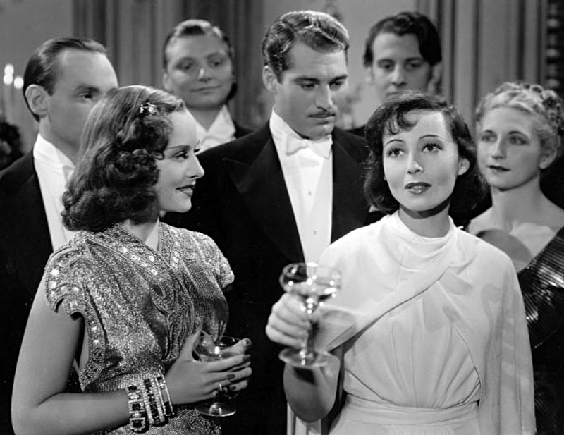 Publicity still of Paulette Goddard and Luise Rainer in Dramatic School (1938).